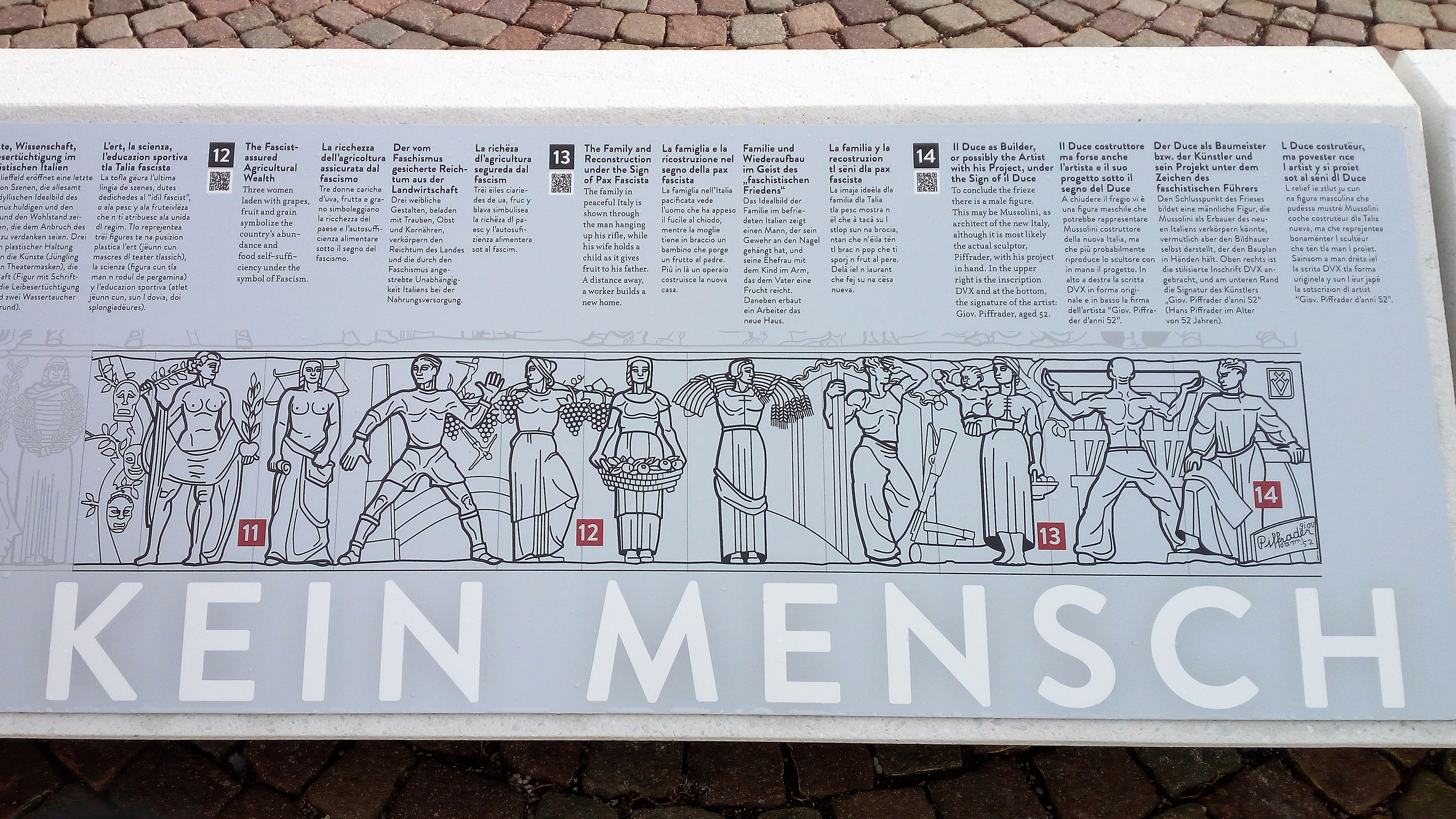 Description of the Bas-Relief in Bozen-Bolzano 2